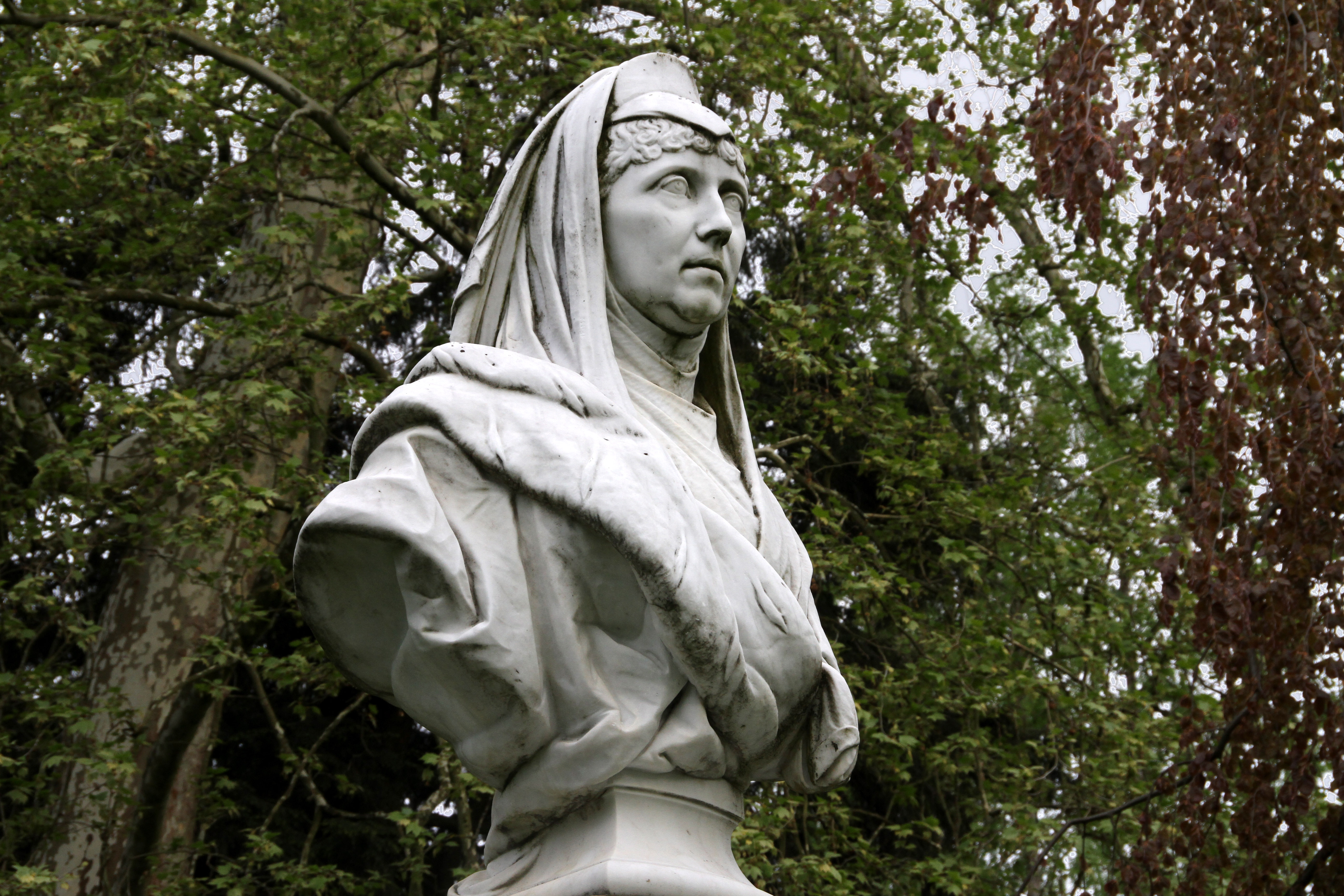 Bust of the Empress Augusta (1811-1890) by Joseph von Kopf (1827-1903) in the Lichtentaler Allee in Baden-Baden.